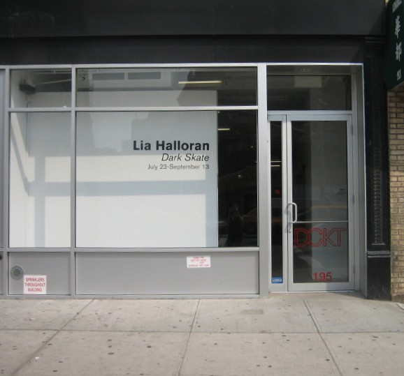 DCKT Contemporary as seen from the intersection of Spring Street and Broadway.